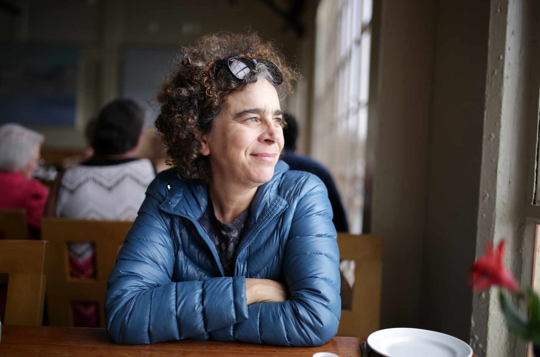 Portrait of Ellen Spiro by Jessica Jin from July 17th, 2016.